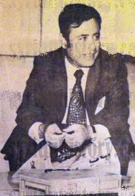 Foreign Minister Abdul Halim Khaddam with Lebanese Prime Minister Takiddine al-Sulh in 1975.